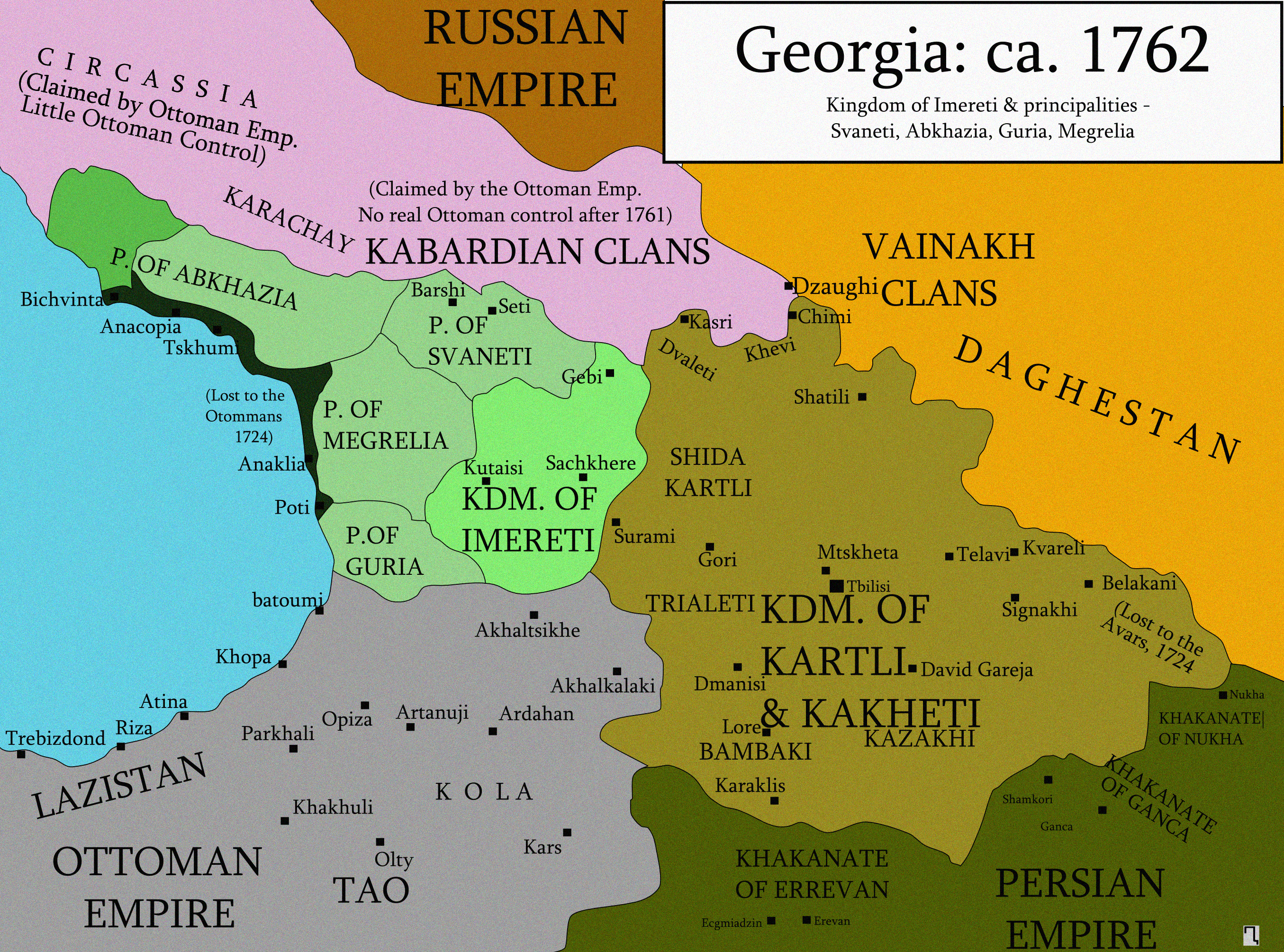 The map of Georgian states in 1762. Based on the map of dr. Andrew Andersen, from Atlas of Conflicts